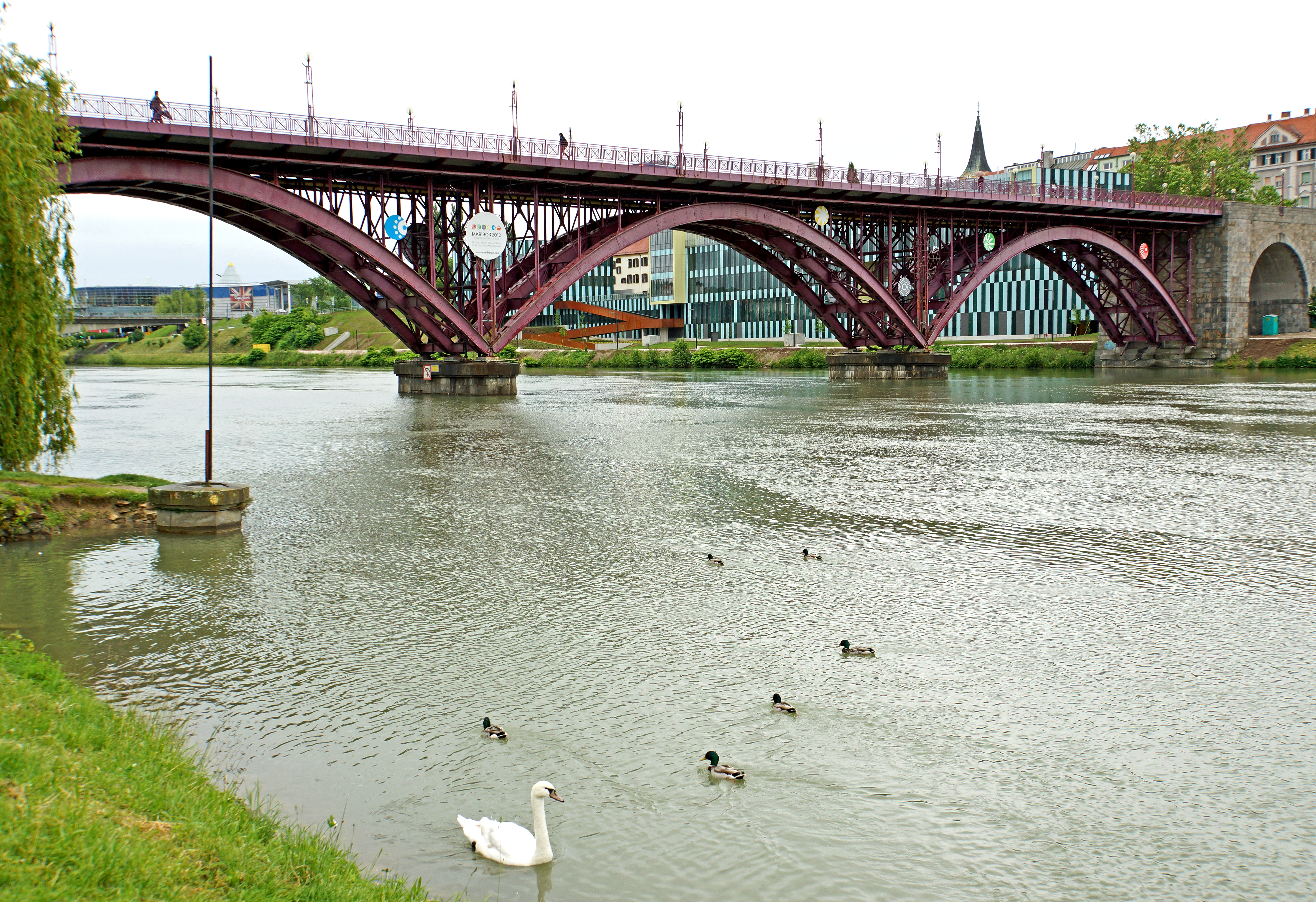 Old Bridge, also known as the Main Bridge, in Maribor, June 2013.